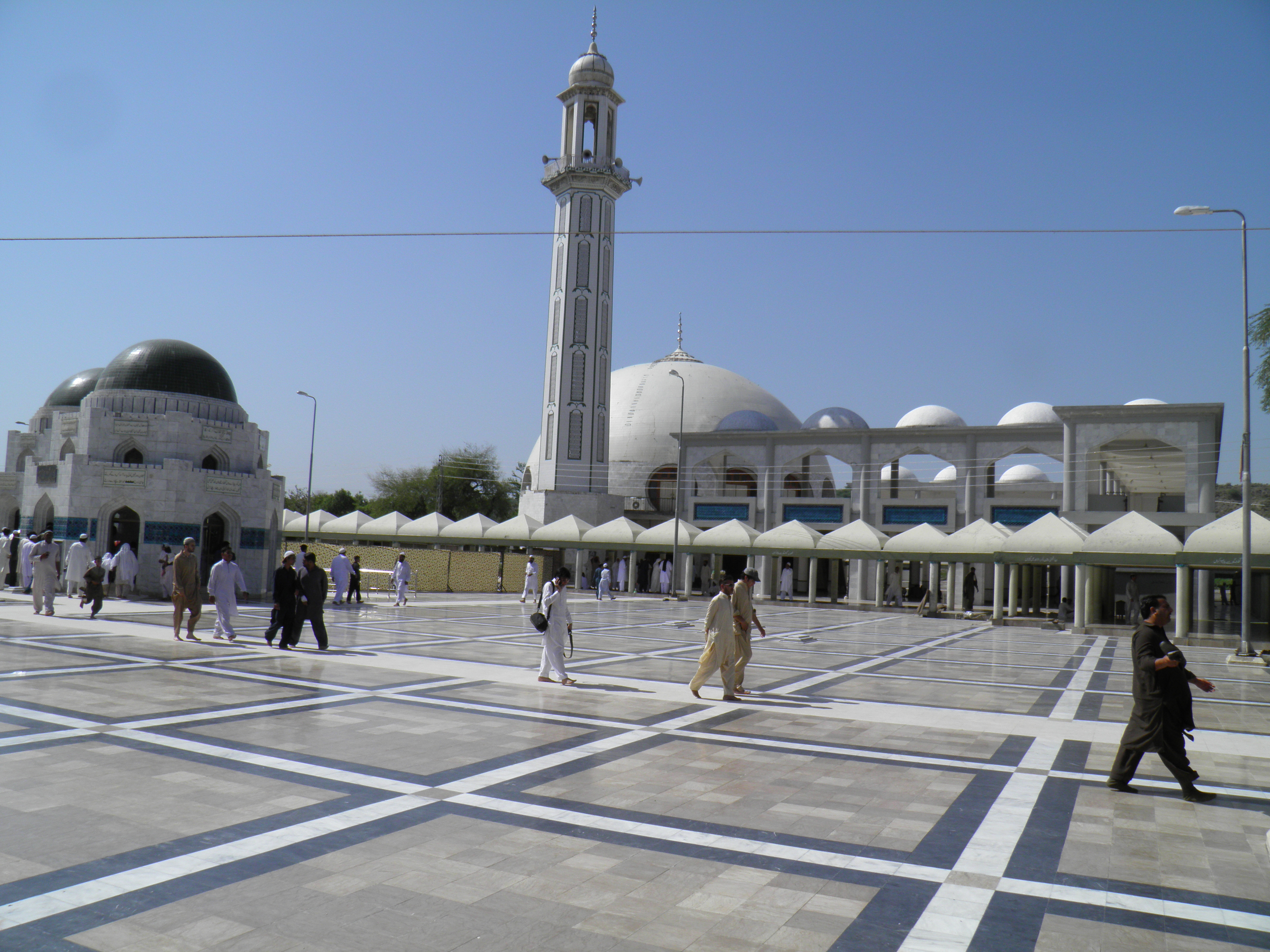 Khari Sharif Mosque Mirpur Azad Kashmir This is a photo of a monument in Pakistan identified as the PB-U-59